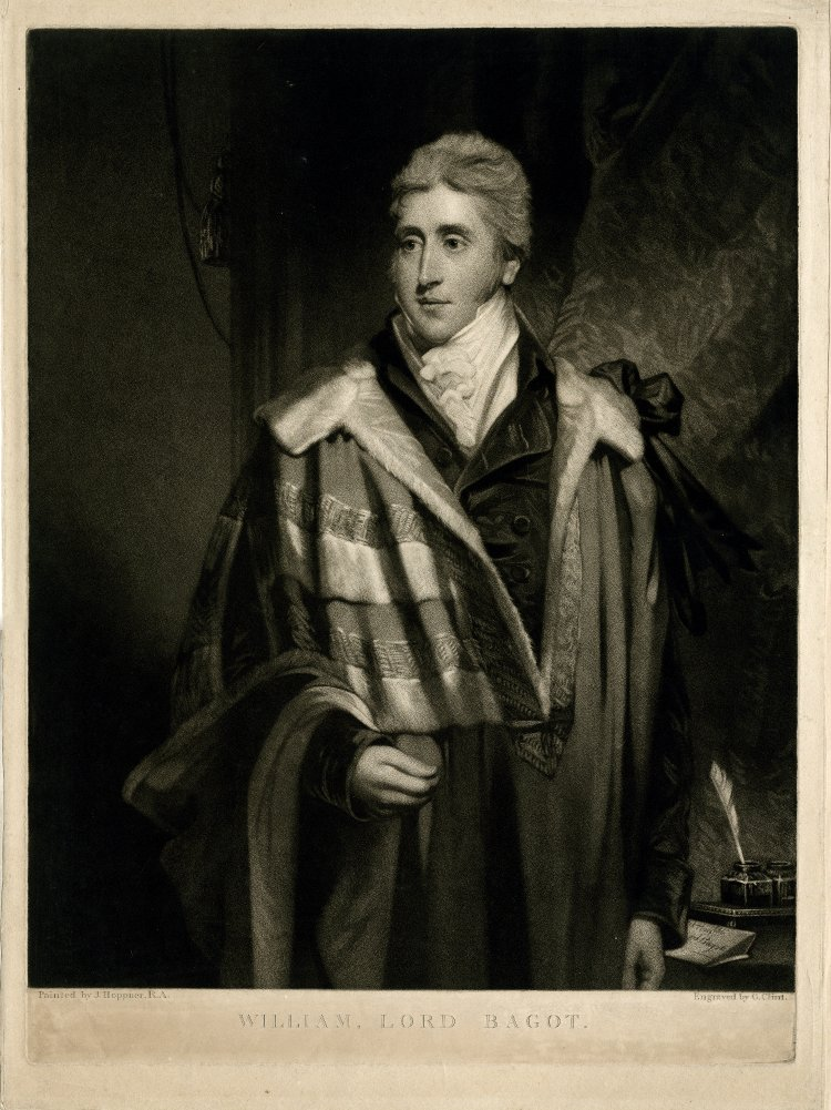 "William Bagot, Lord Bagot," portrait of William Bagot, 2nd Baron Bagot, mezzotint, by the British printmaker George Clint, after a painting by John Hoppner. Courtesy of the British Museum, London.